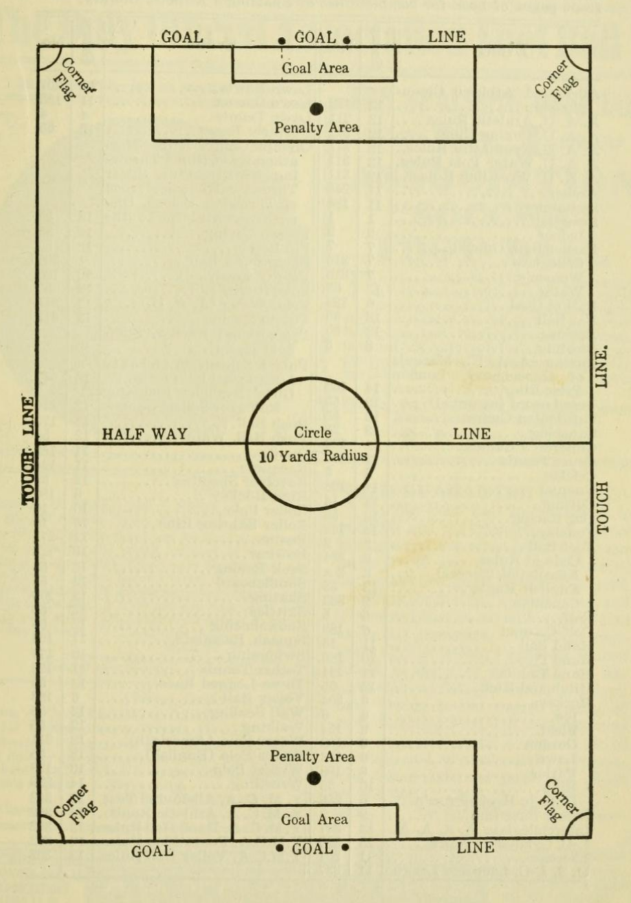 "Plan of the field of play" for association football, as first included in the 1902 laws of the game. NOTE: this image is from a 1910 publication, but is functionally identical to the original image included in the 1902 laws, as can be seen on page 4 of this PDF. That original image is of uncertain copyright status, so I have uploaded this image instead.